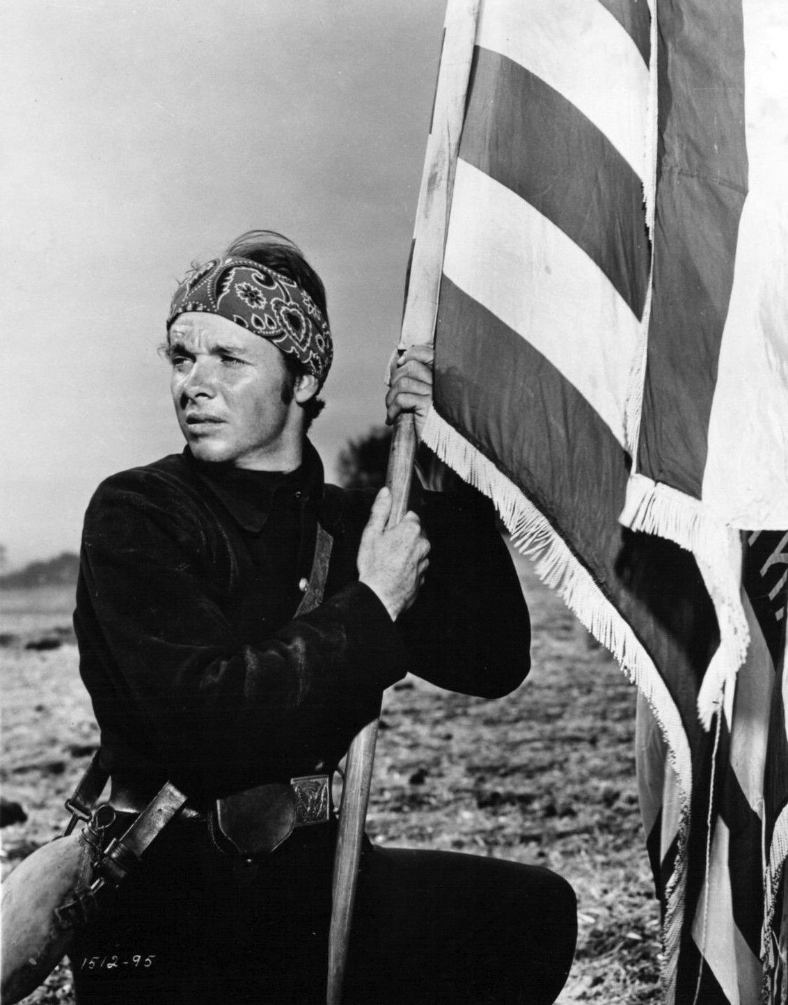 Publicity photo of Audie Murphy for film, Red Badge of Courage